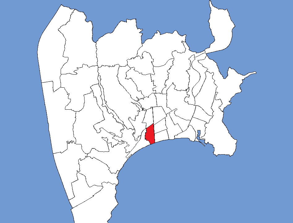 Location of the neighbourhood Gambetta in Nice